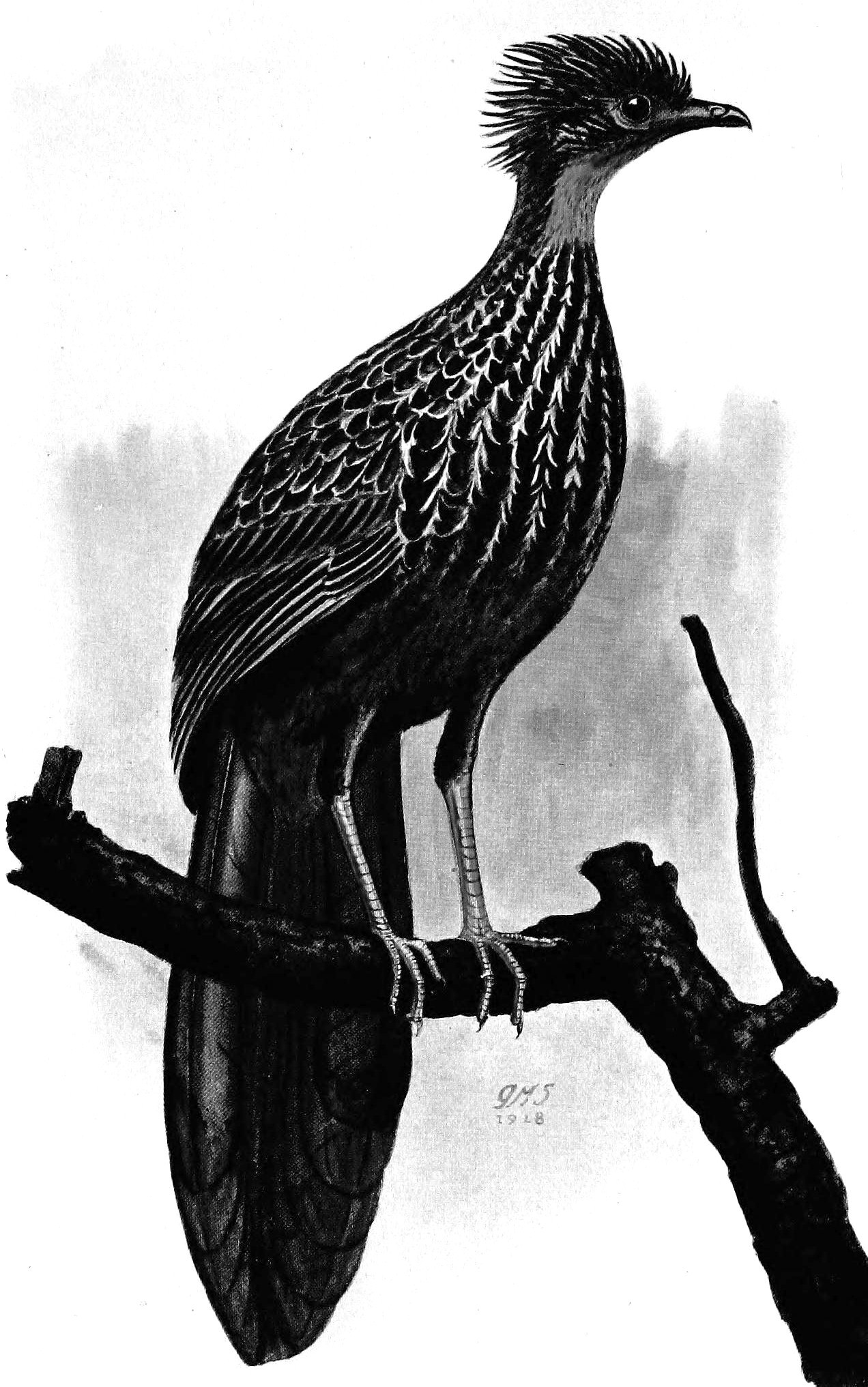 Penelope colombiana = Penelope argyrotis colombiana (subspecies of the Band-tailed Guan)